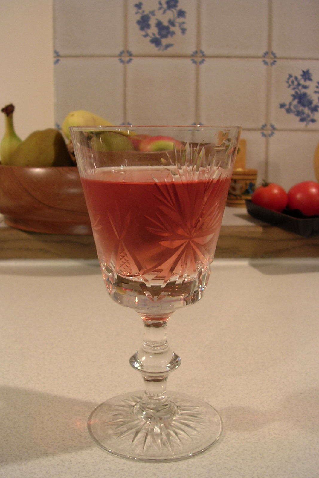 Unidentified glass of rose wine